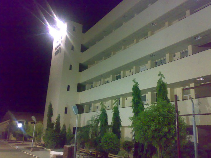 medical Campus